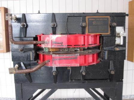 The first betatron, a particle accelerator that accelerates electrons, built at University of Illinois in 1940 by Donald W. Kerst. It produced 24 Mev electrons. This is only the 4 ton electromagnet.